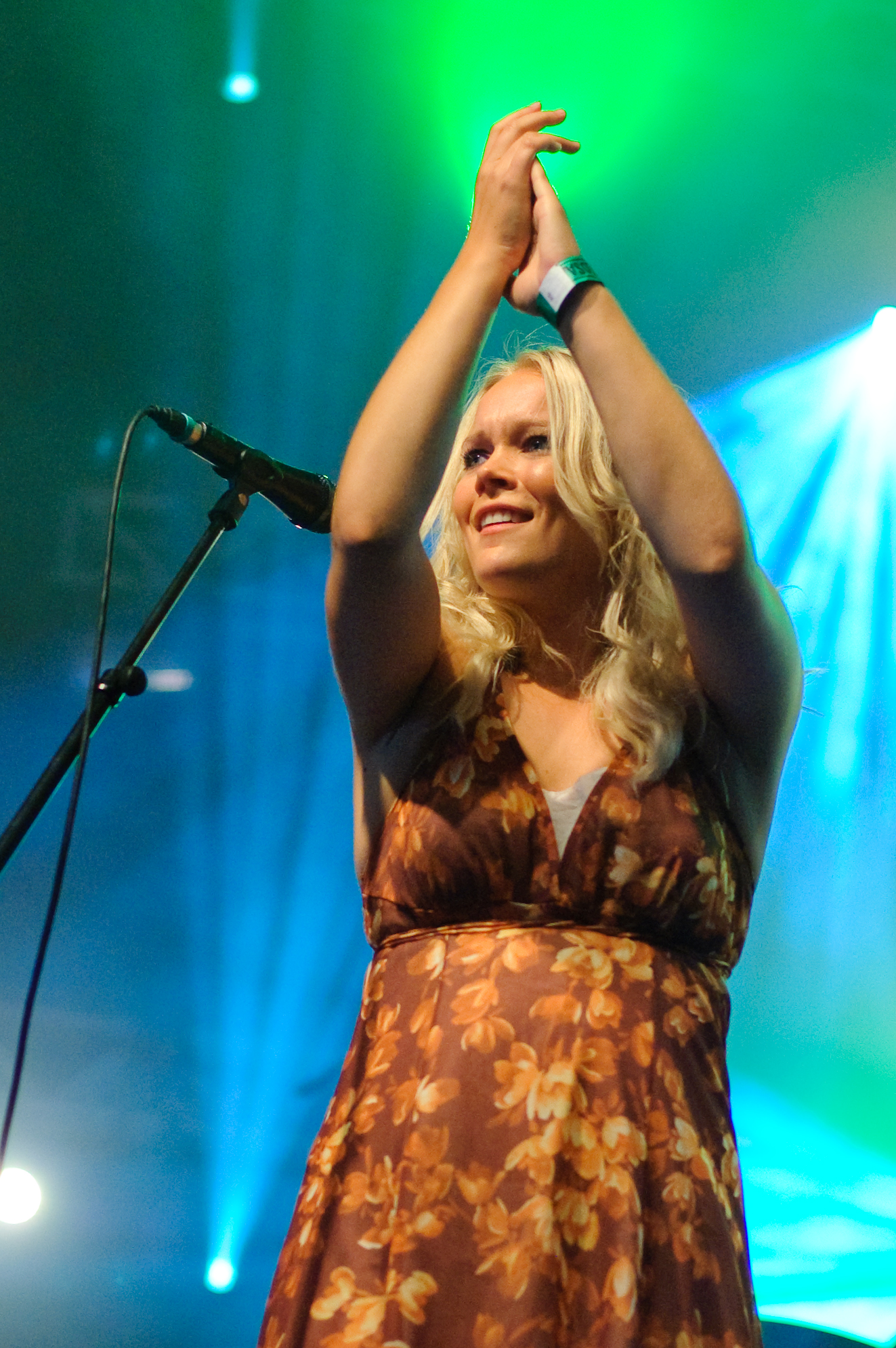 Vocalist Anna Puu performing at the Ilosaarirock festival in Joensuu, Finland.